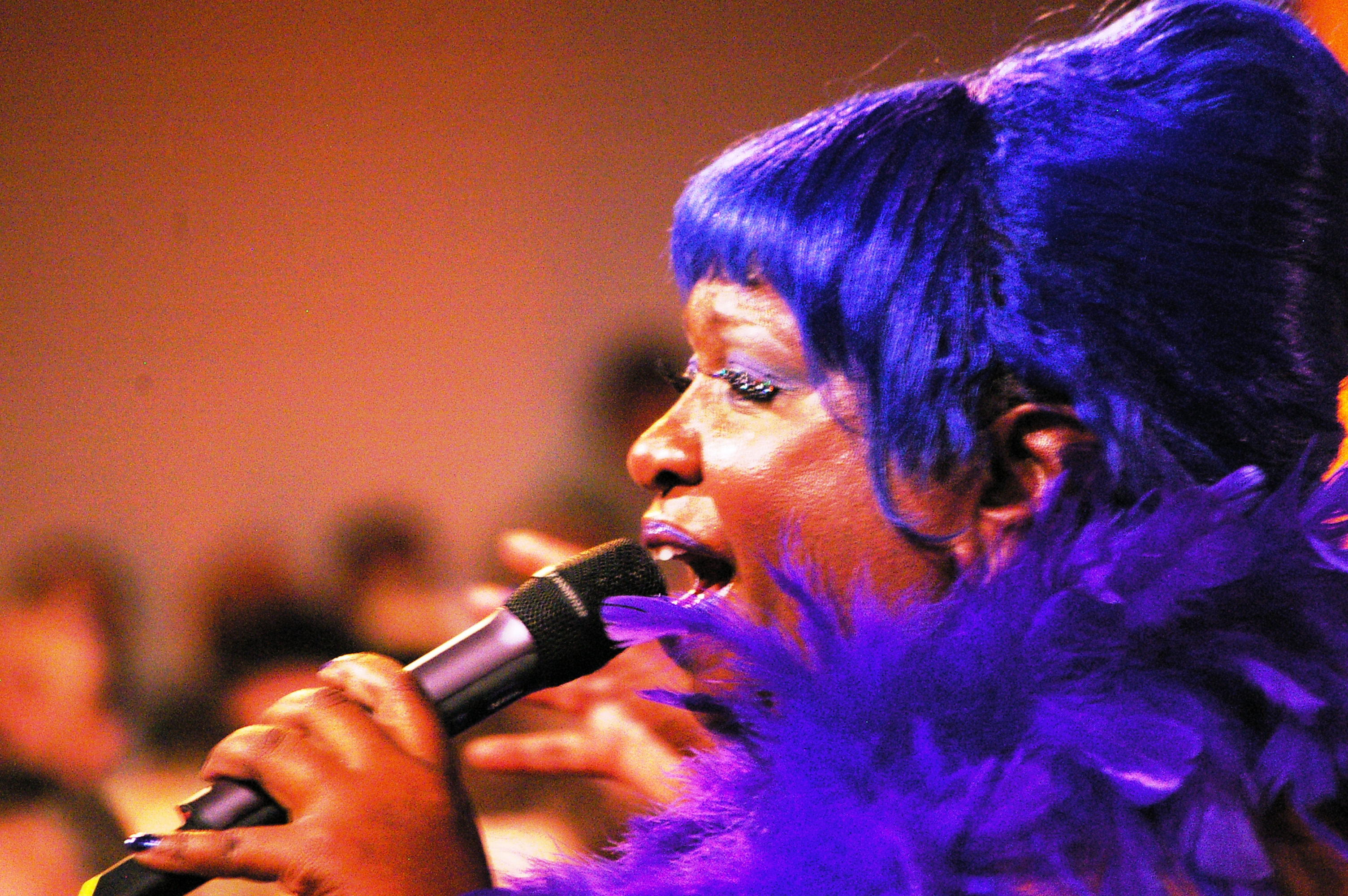 blues singer Pat Cohen